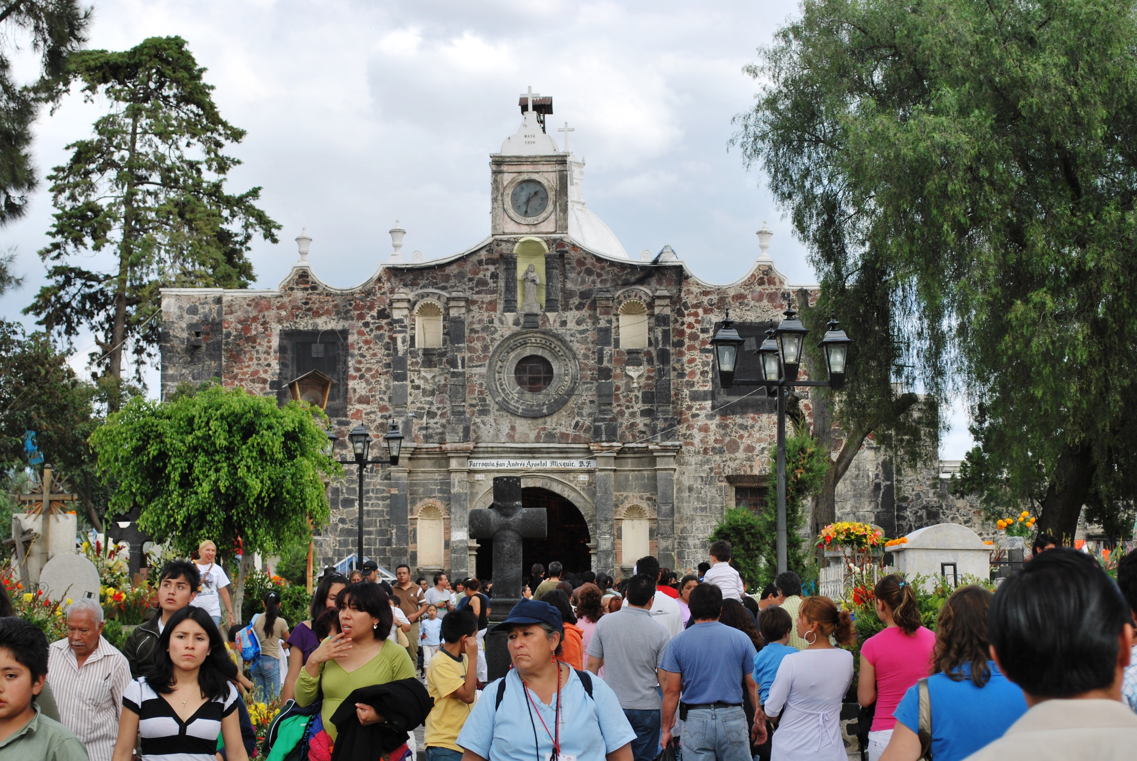 Church of San Andres Apostol in San Andres Mixquic, Mexico City. Taken on Day of the Dead